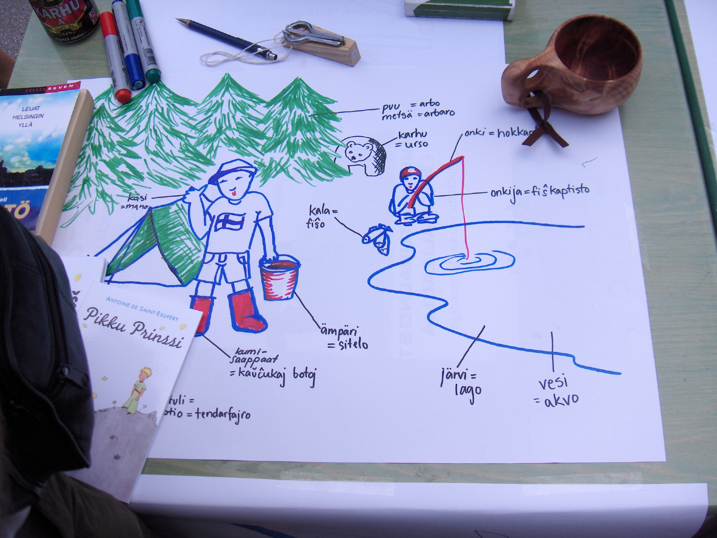 Finnish esperantist stand at IJK 2006 Sarajevo